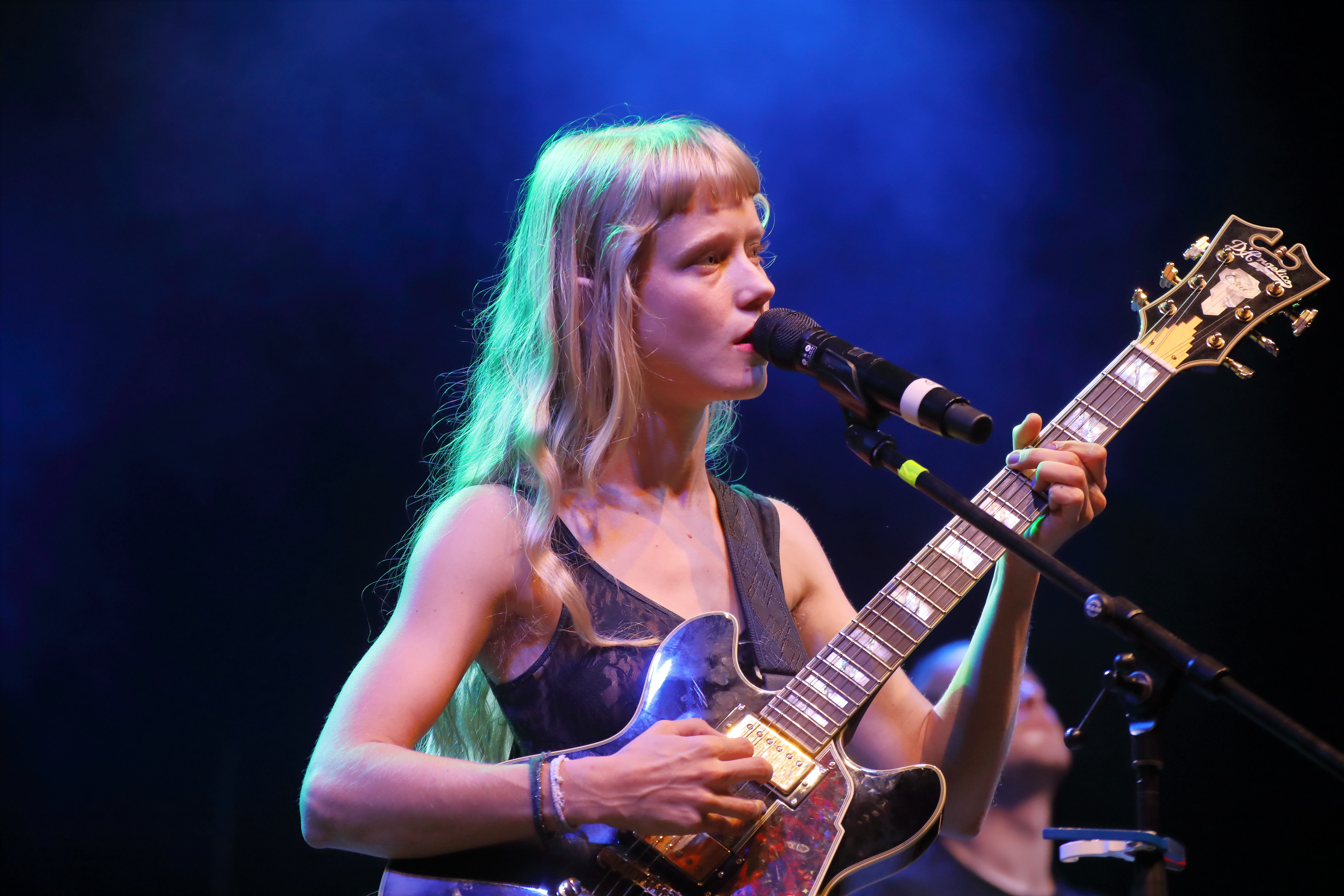 Singer-songwriter Alice Phoebe Lou from South Africa and her band at Rudolstadt-Festival 2019.